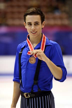 Stephen Carriere (USA) during the men's medals ceremony at the 2007 NHK Trophy. He won the bronze medal at this event.